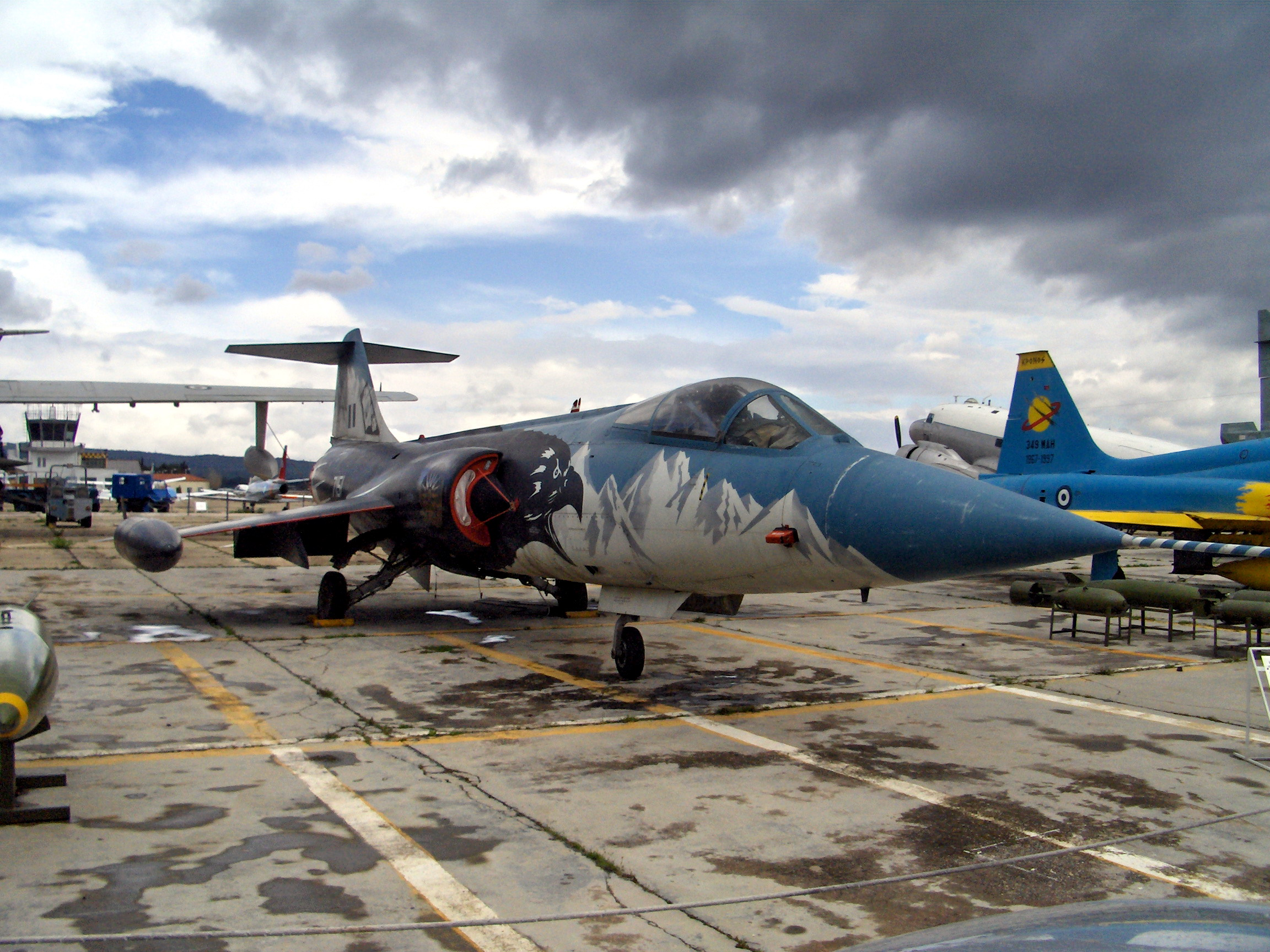 Exhibit at the Hellenic Air Force Museum at Dekelia (Tatoi), Athens, Greece. F-104G Starfighter (FG-7151) painted in anniversary scheme "Olympus".